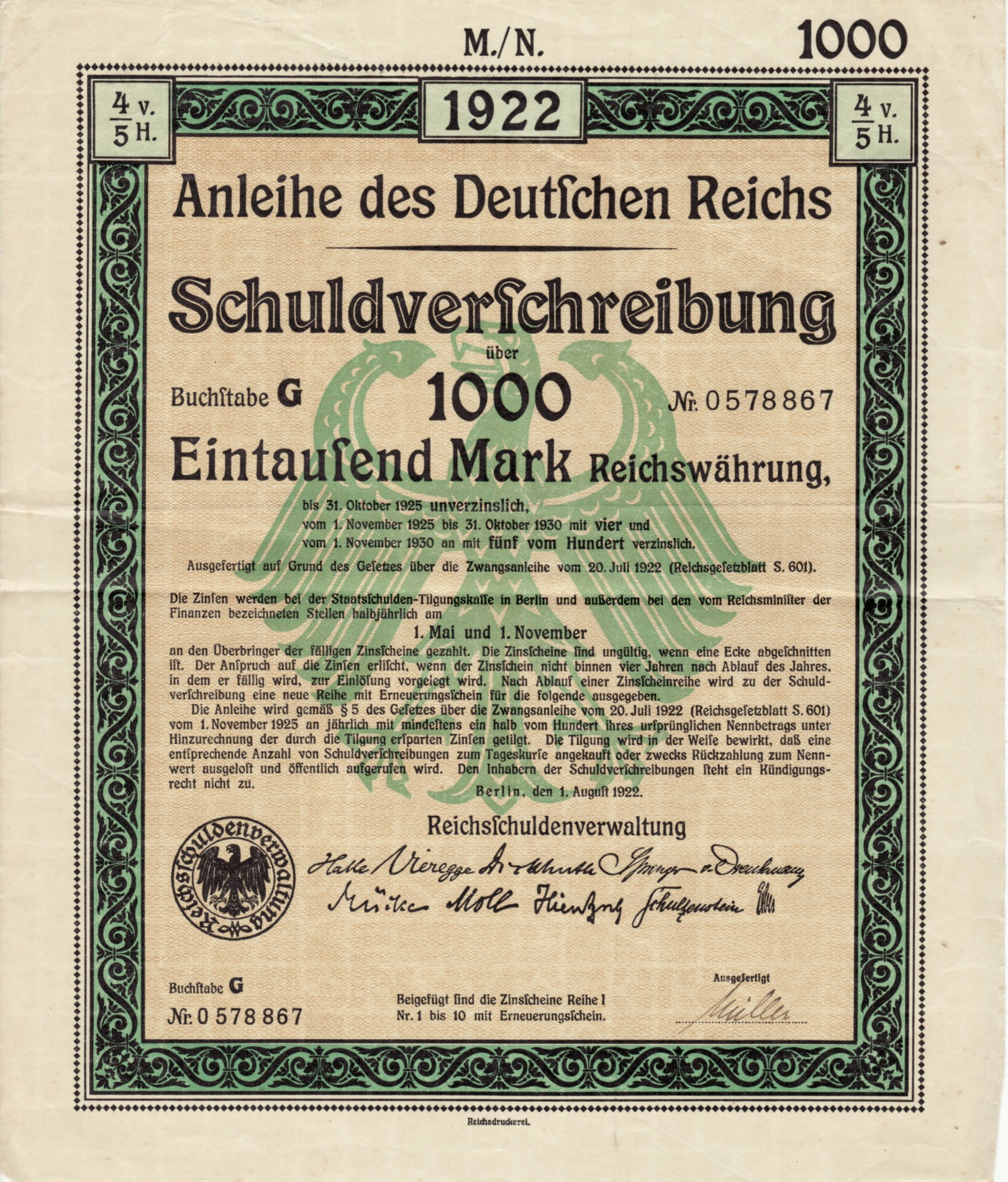 Bond (finance) Germany 1922-08-01